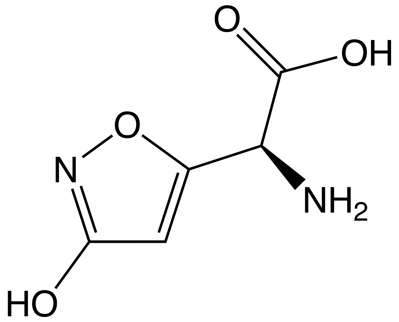 2D-skeletal drawing of ibotenic acid